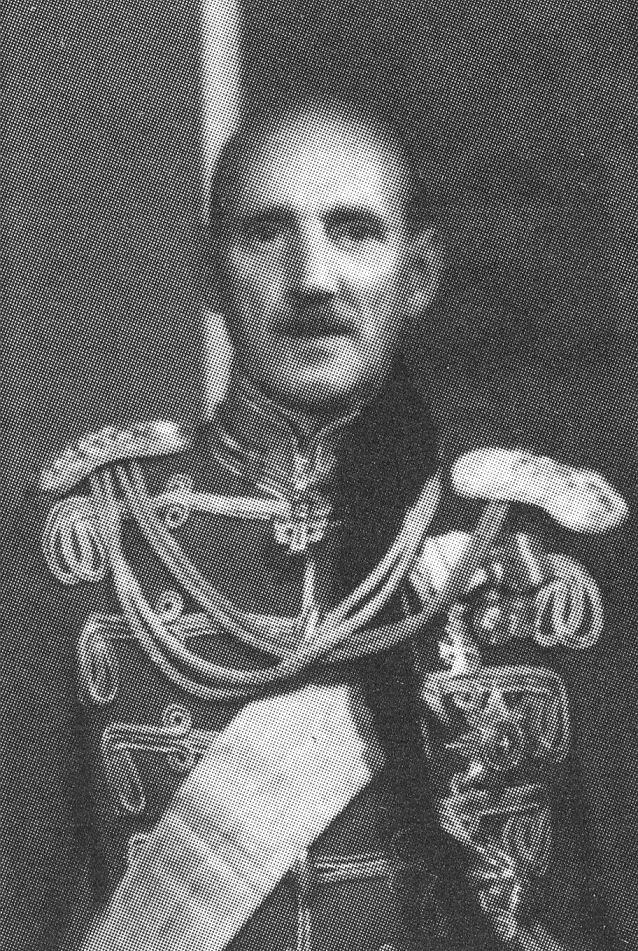 Count Viggo of Rosenborg